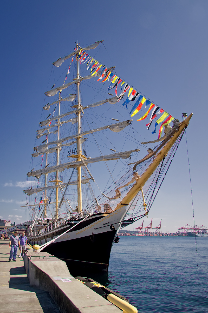 The Russian sailing ship Pallada, on its international trans-Pacific expedition, docked at Pier 66 in Seattle. August 11, 2011. Taken by Steven Pavlov.